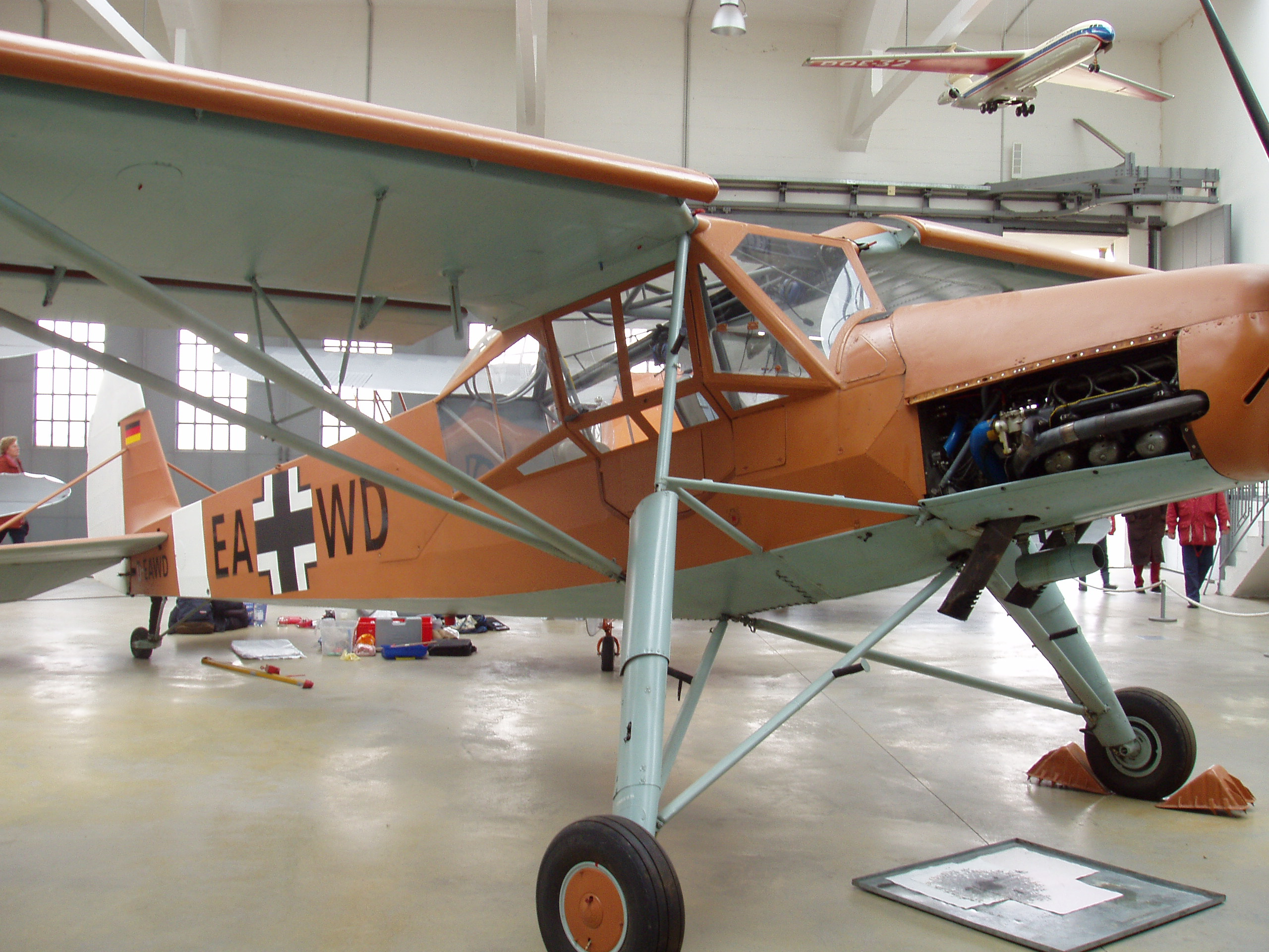 Fieseler Fi 156 Storch in the Flugwerft Schleißheim. This exemplar is still ready to fly. Author: Fabian von Blücher